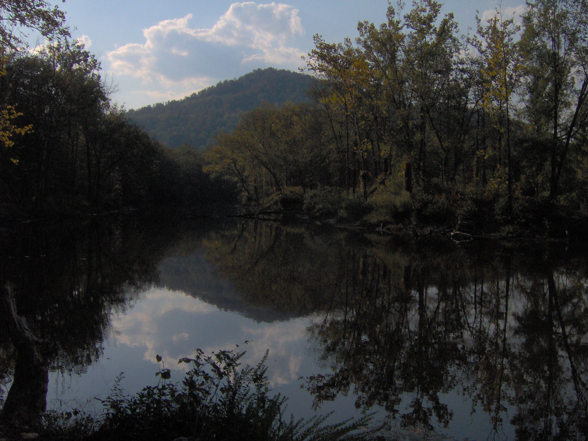 Ballard Lake, a large pond at Indian Mountain State Park in Jellico, Tennessee, in the southeastern United States. Indian Mountain rises in the distance.